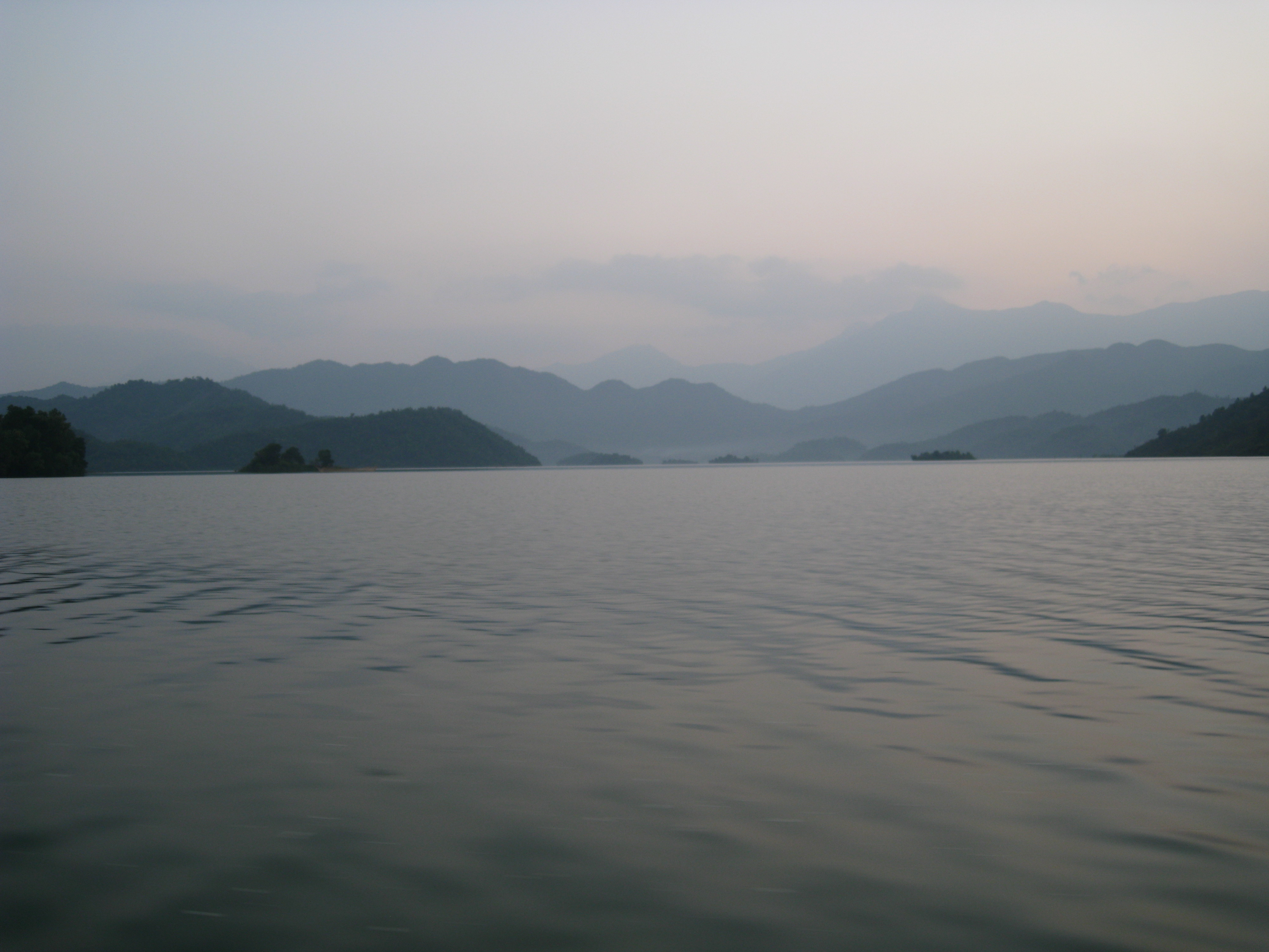 Núi Cốc Lake.